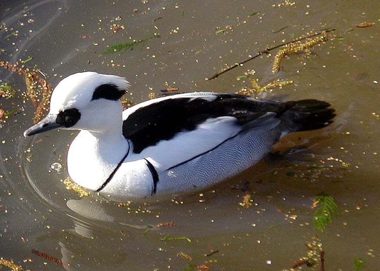 Smew Mergellus albellus at Slimbridge Wildfowl and Wetlands Centre, Gloucestershire, England. Taken by Adrian Pingstone in February 2004 and released to the public domain.